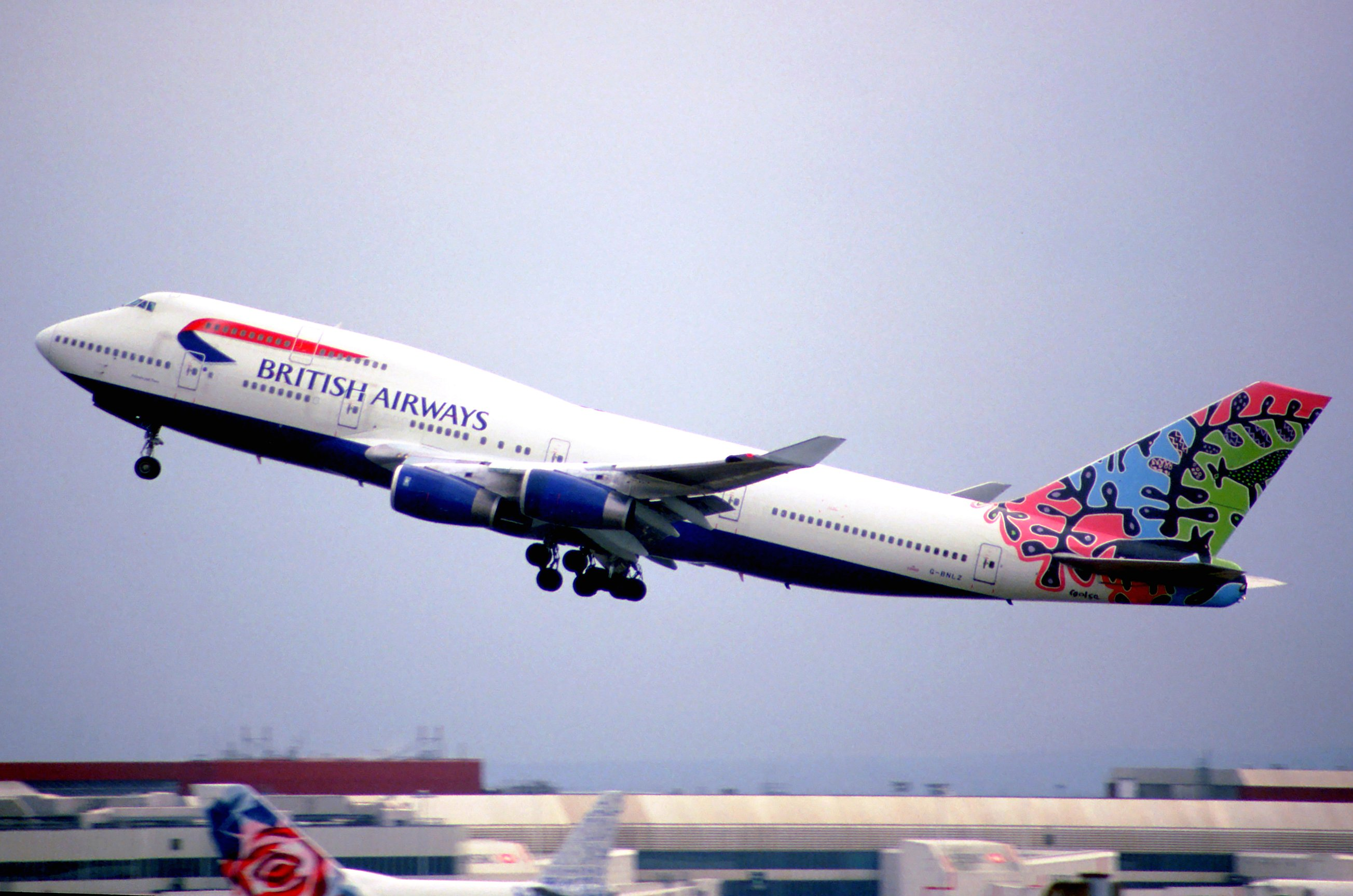 Animals & Trees-colours... This Boeing 747-436 took its first flight on February 22, 1993...(c/n 27091/ 964) 01/03/1993 British Airways G-BNLZ